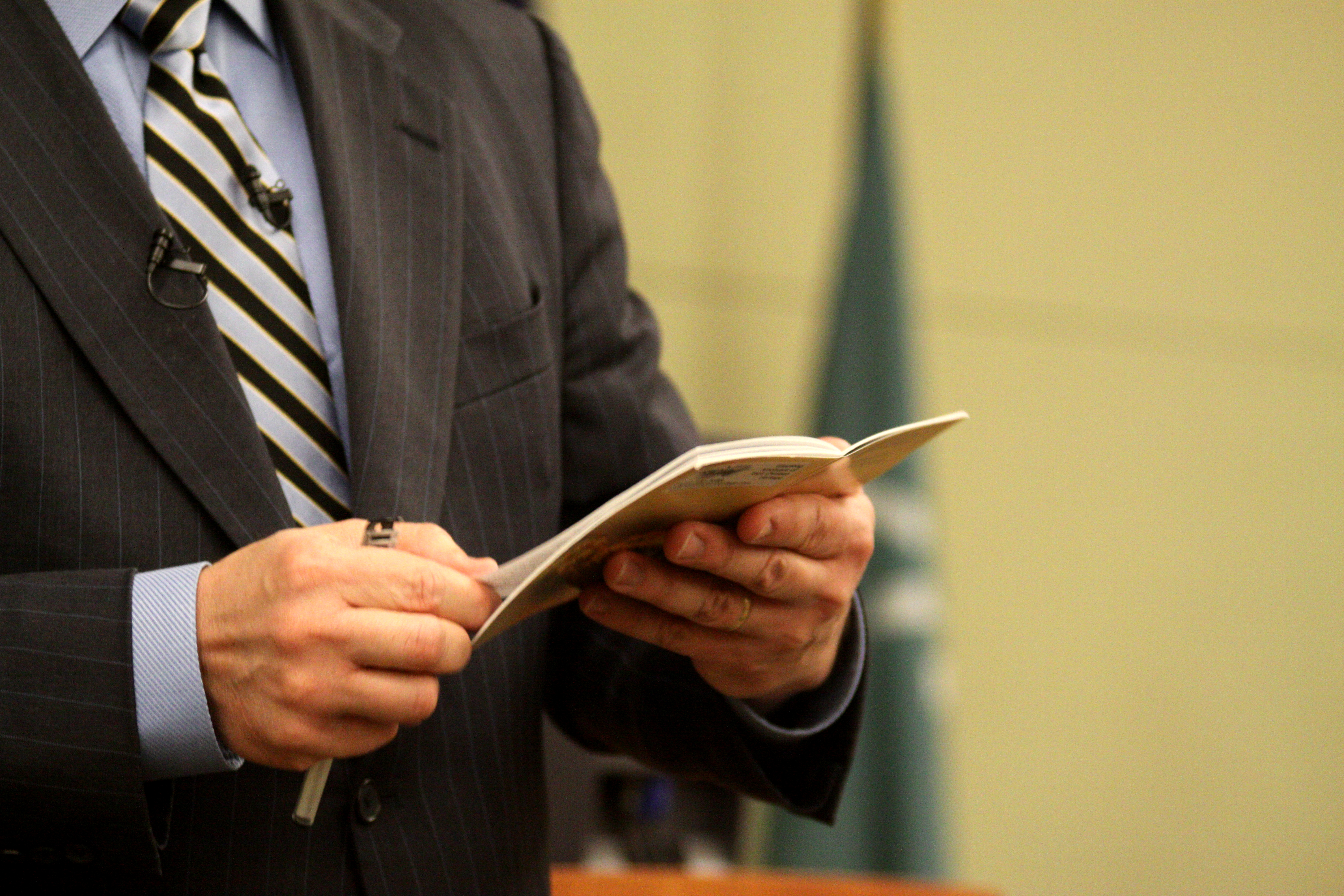 United States Senate candidate John Hostettler at a townhall at Ivy Tech in Evansville, Indiana, reading a pocket Constitution.